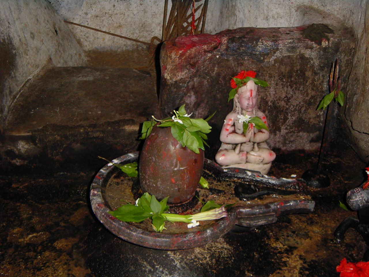 A Shiva Lingam (representation of the Hindu god Shiva) with a statue of Shiva in a small temple inside the Dalma Wildlife Sanctuary that spans the states of Jharkhand and West Bengal, India